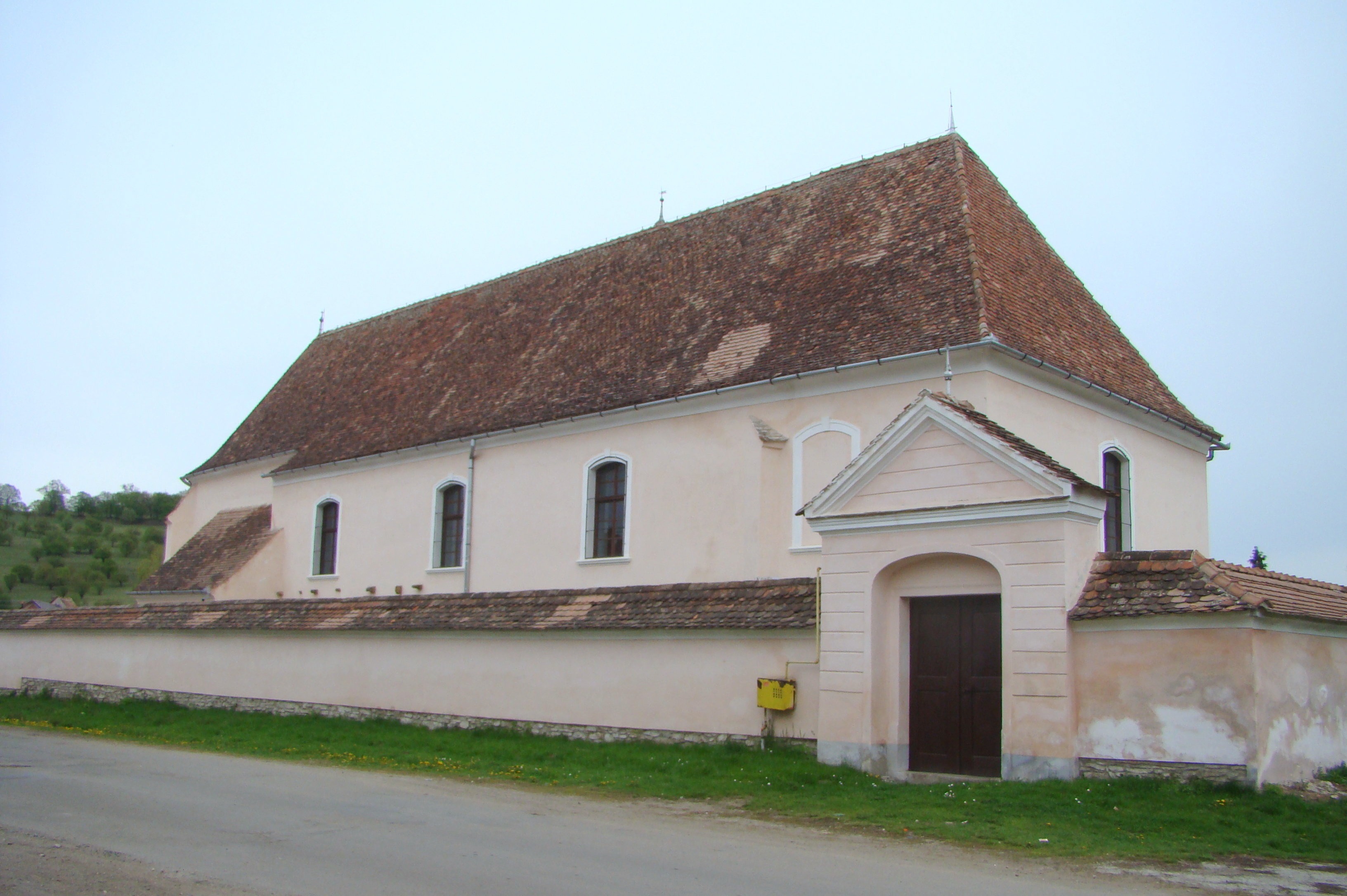 Lutheran church in Seleuș (Daneș), Mureș county, Romania